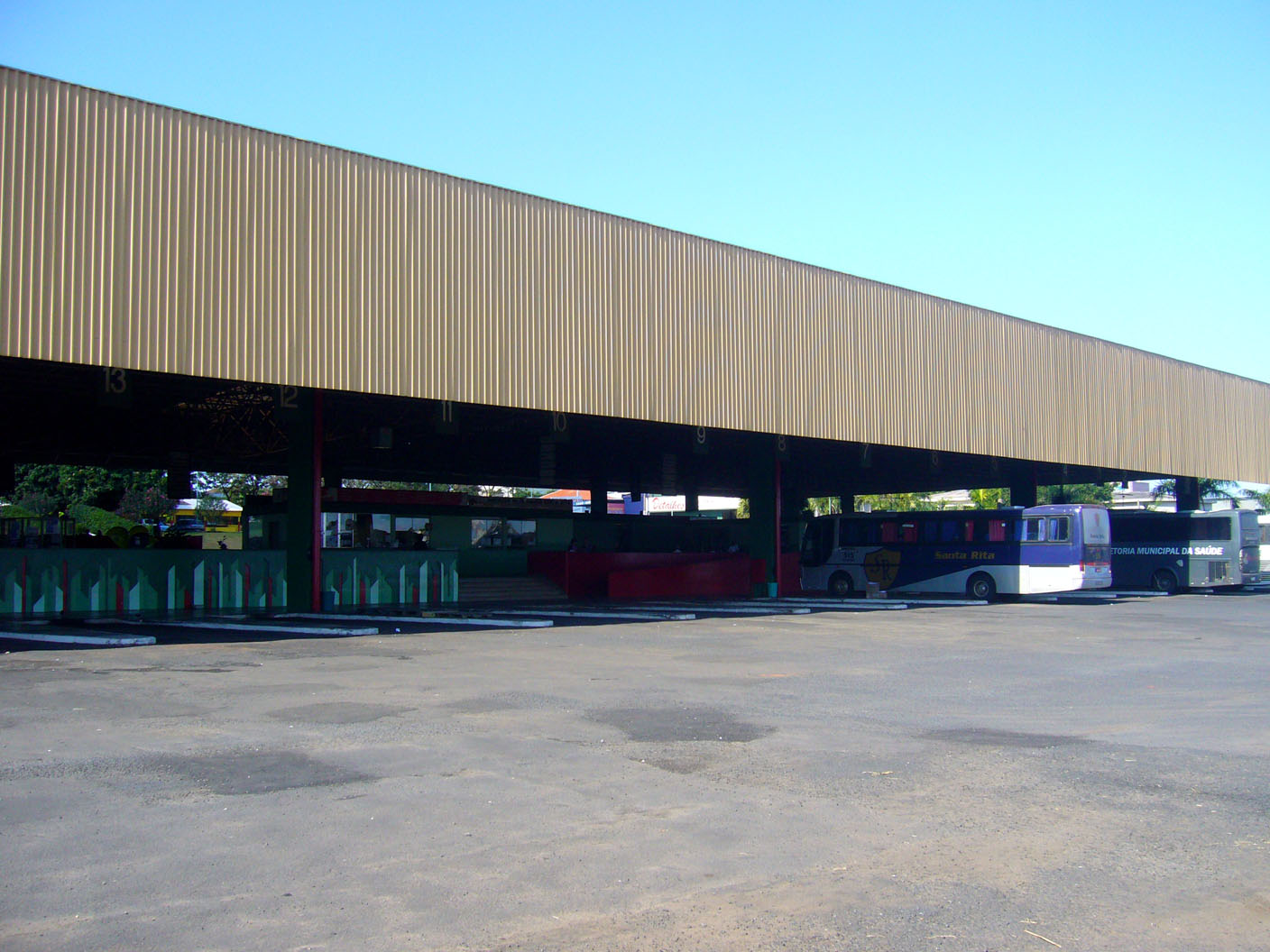 Rodoviária intermunicipal de Fernandópolis.